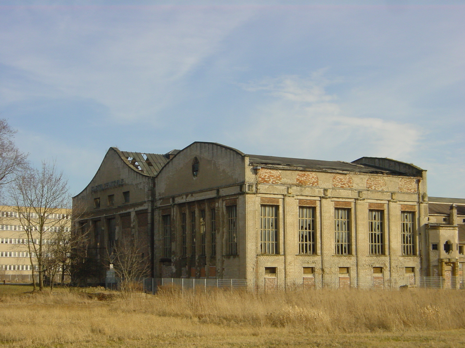 Elbtalzentrale, first electric power station of Pirna, built in 1912, Saxony, Germany